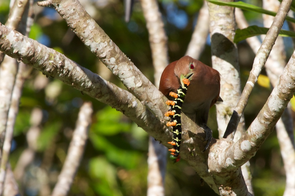 A Squirrel Cuckoo eating a caterpillar in Belize.